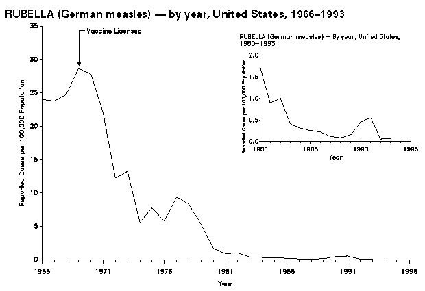 Rubella incidence in USA 1966-93 from CDC summary morbidity report.